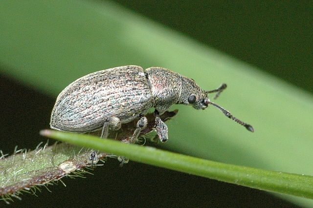 Picture taken in Commanster, Belgian High Ardennes . Species: Phyllobius pyri male